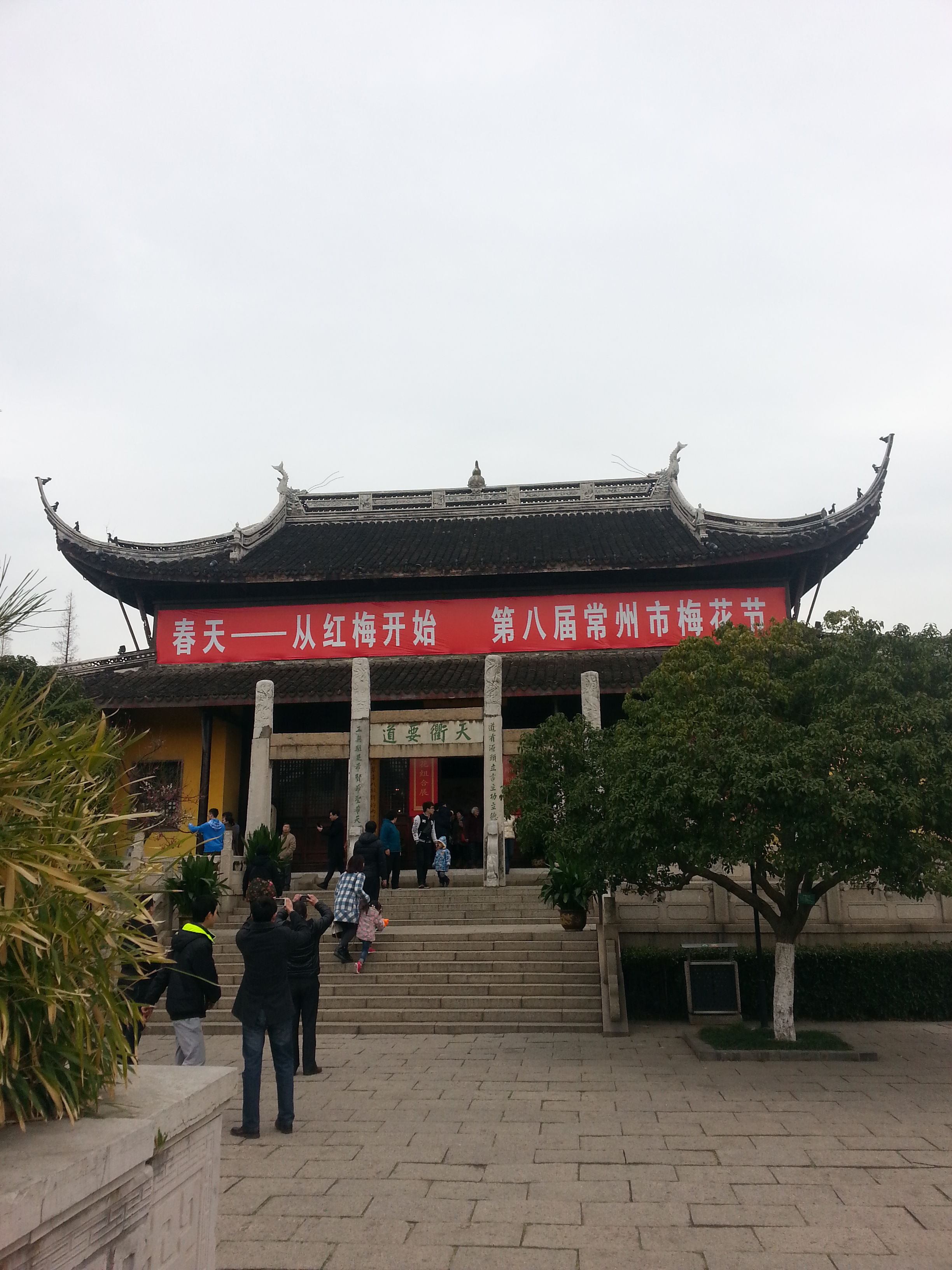 常州市文物保护单位